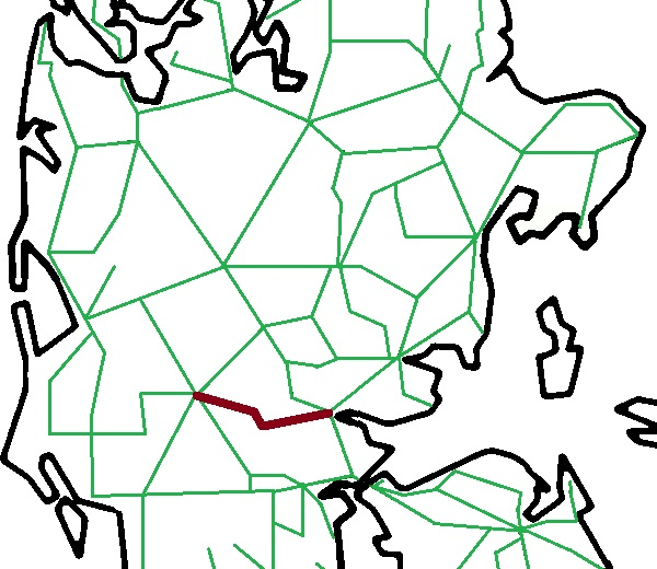 Map of railways in Middle Jutland in Denmark with the private railway Vejle-Vandel-Grindsted Jernbane in brown.